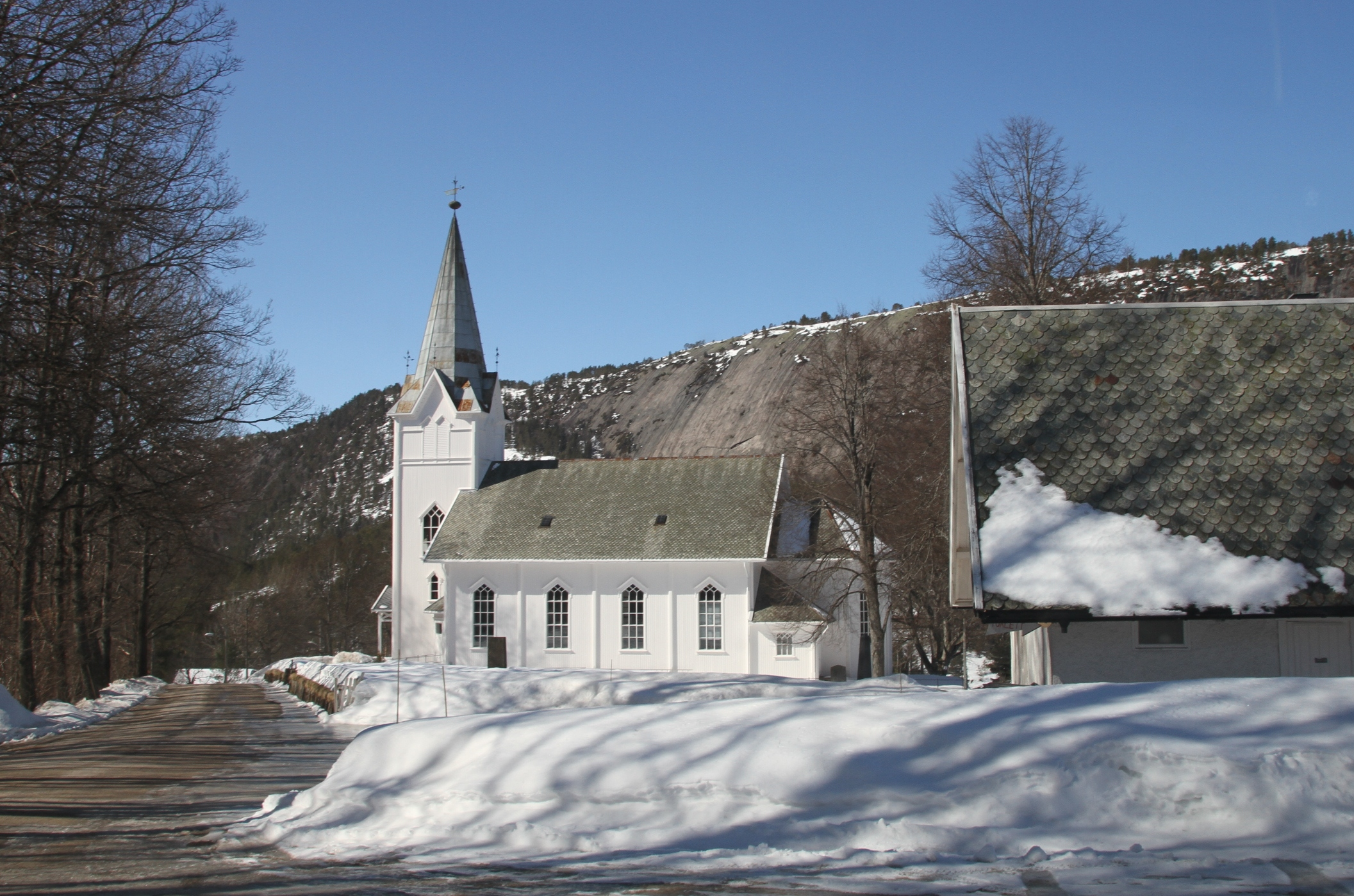 Åmli Kirke, the main (lutheran) church of Åmli settlement, Aust-Agder (Norway).